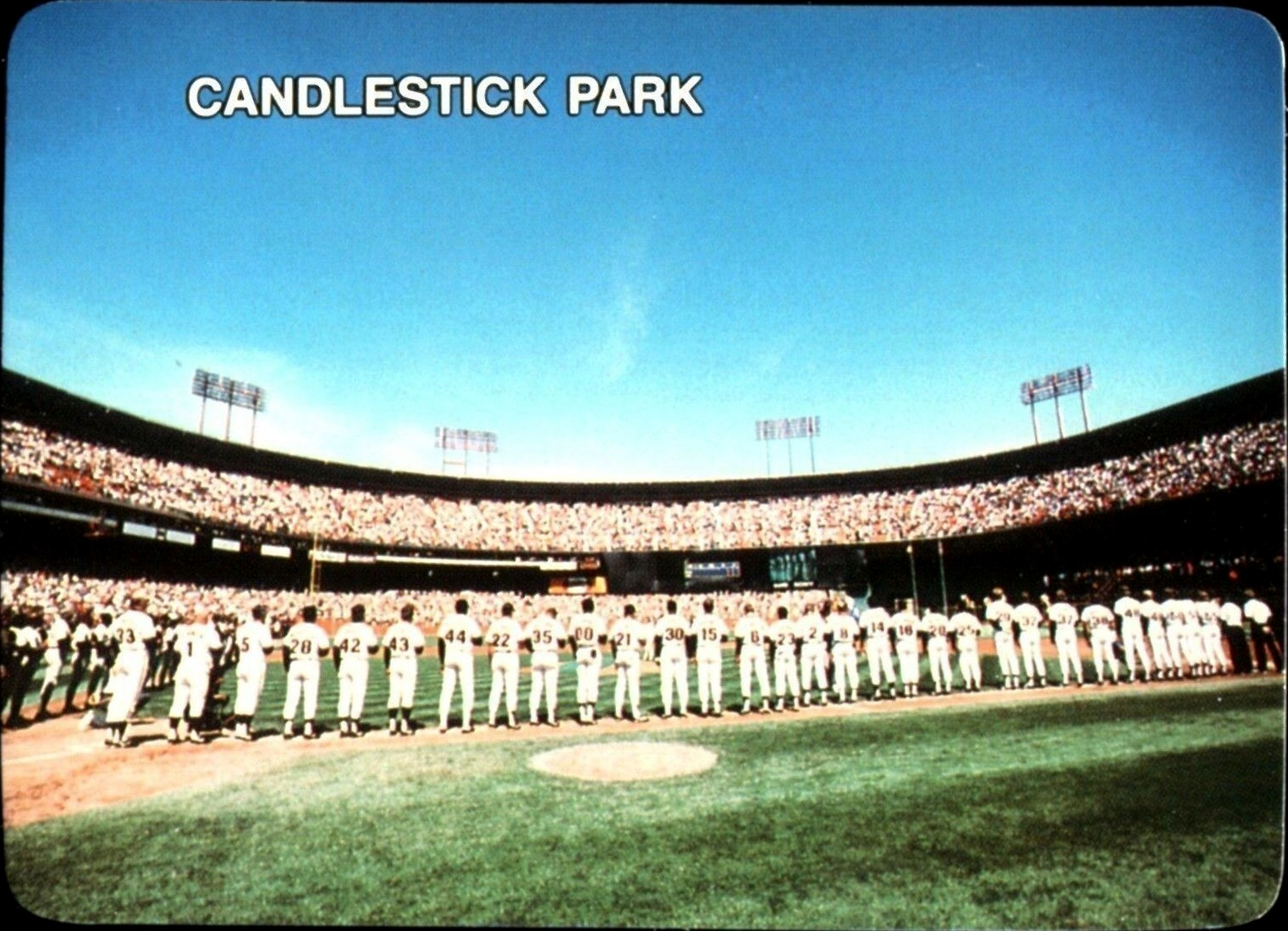 The checklist card of the 1987 Mother's Cookies San Francisco Giants trading cards set. A photograph of Giants players standing during the national anthem prior to a game at Candlestick Park appears on the front of the card and a checklist of all 28 of the trading cards in the set appears on the back. The card is numbered #28 in the set.